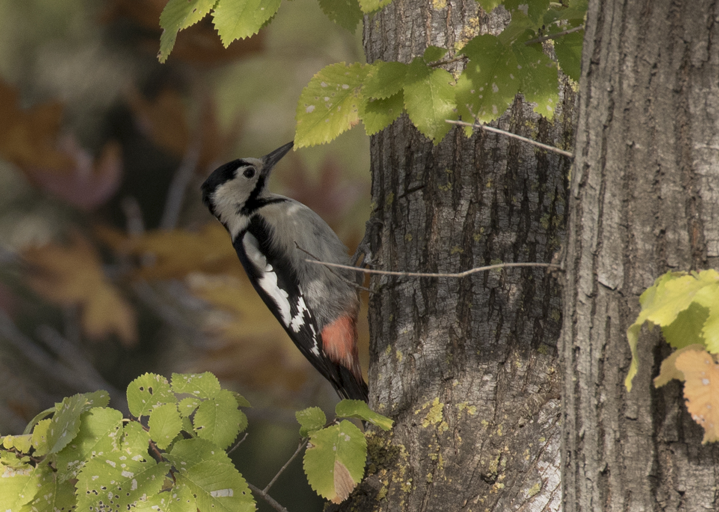 Syrian Woodpecker (Dendrocopos syriacus) at Çukurova University Campus in Balcalı - Sarıçam, Adana - Turkey.